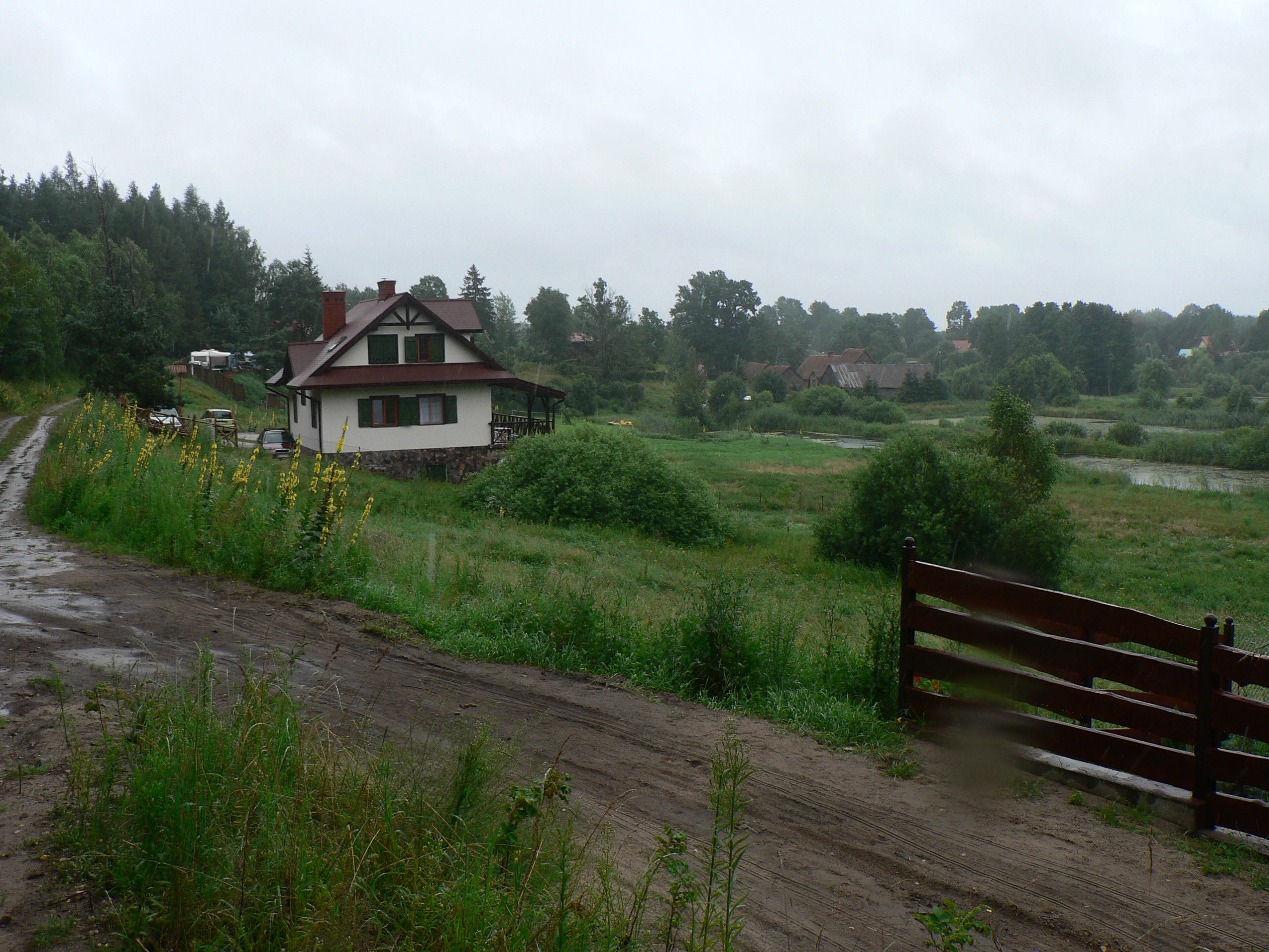 Brzeźno Łyńskie near Olsztynek